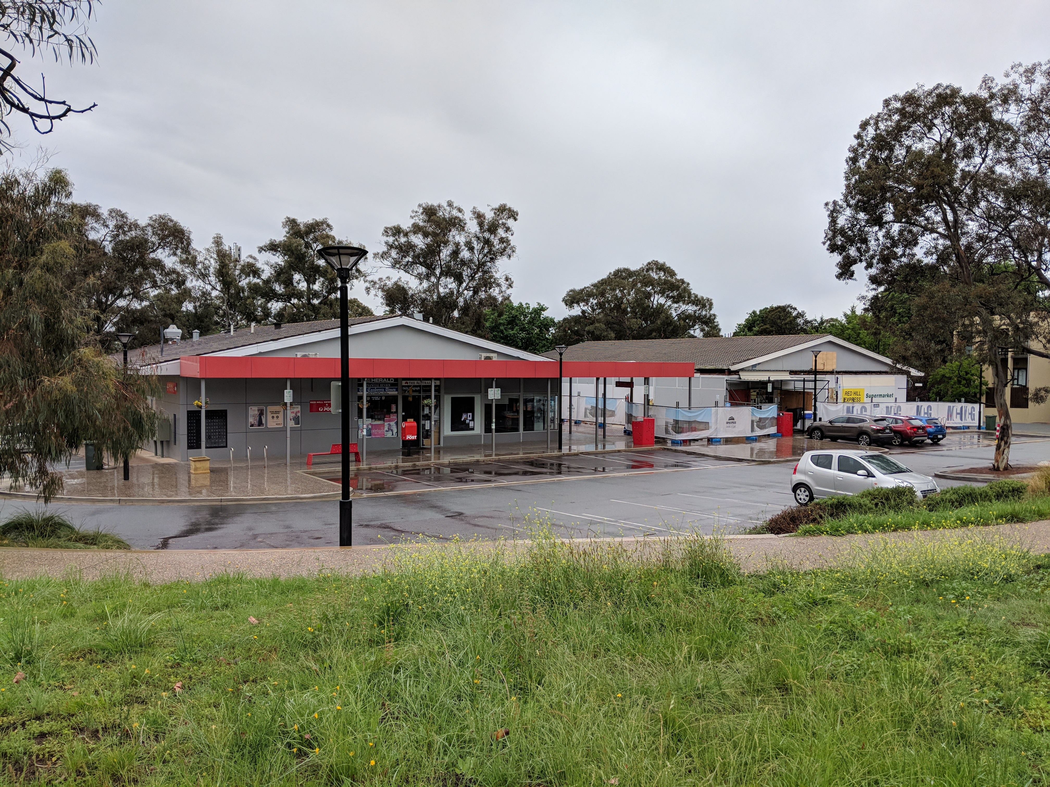 Red Hill shops, Canberra, 2017